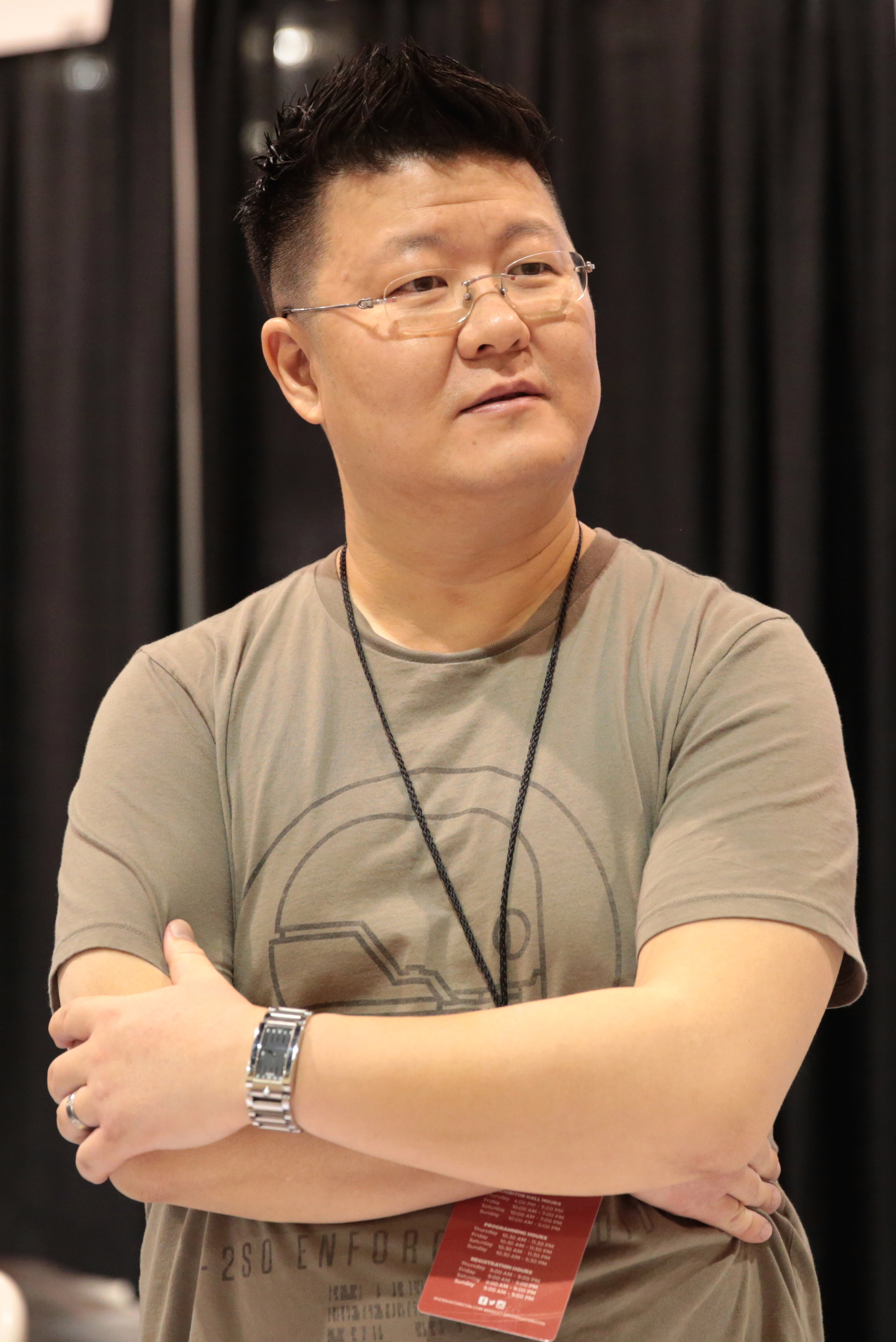 Jae Lee speaking at the 2017 Phoenix Comicon in Phoenix, Arizona.